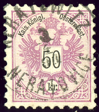 Austrian KK stamp, issue 1883, 50 kreuzer, bilingual cancelled at NERATOWITZ in 1891, Bohemia - 25 Points Klein